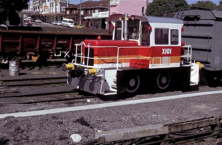 Shunting locomotive X101 at Petersham